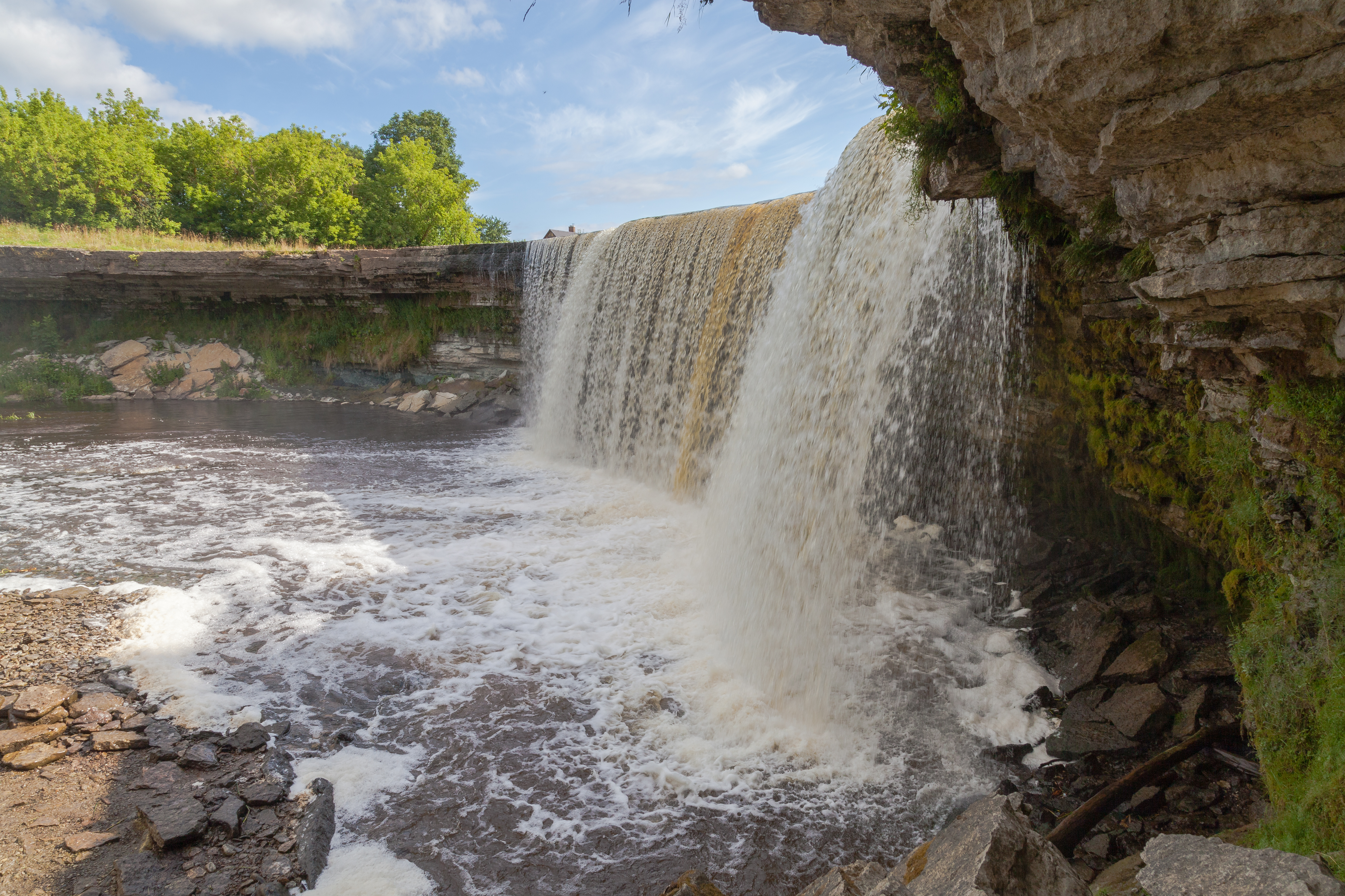 Jägala juga, Jõelähtme, Estonia